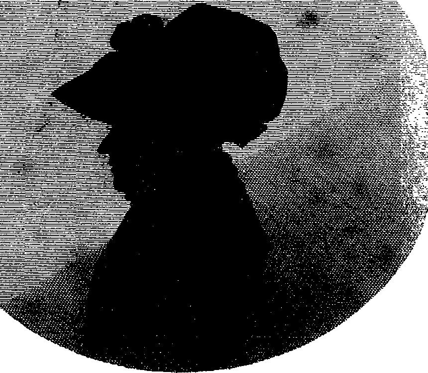 Fleuron from book: Songs in the night; by a young woman under deep afflictions.